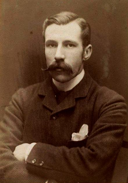 Portrait of Clive Phillipps-Wolley